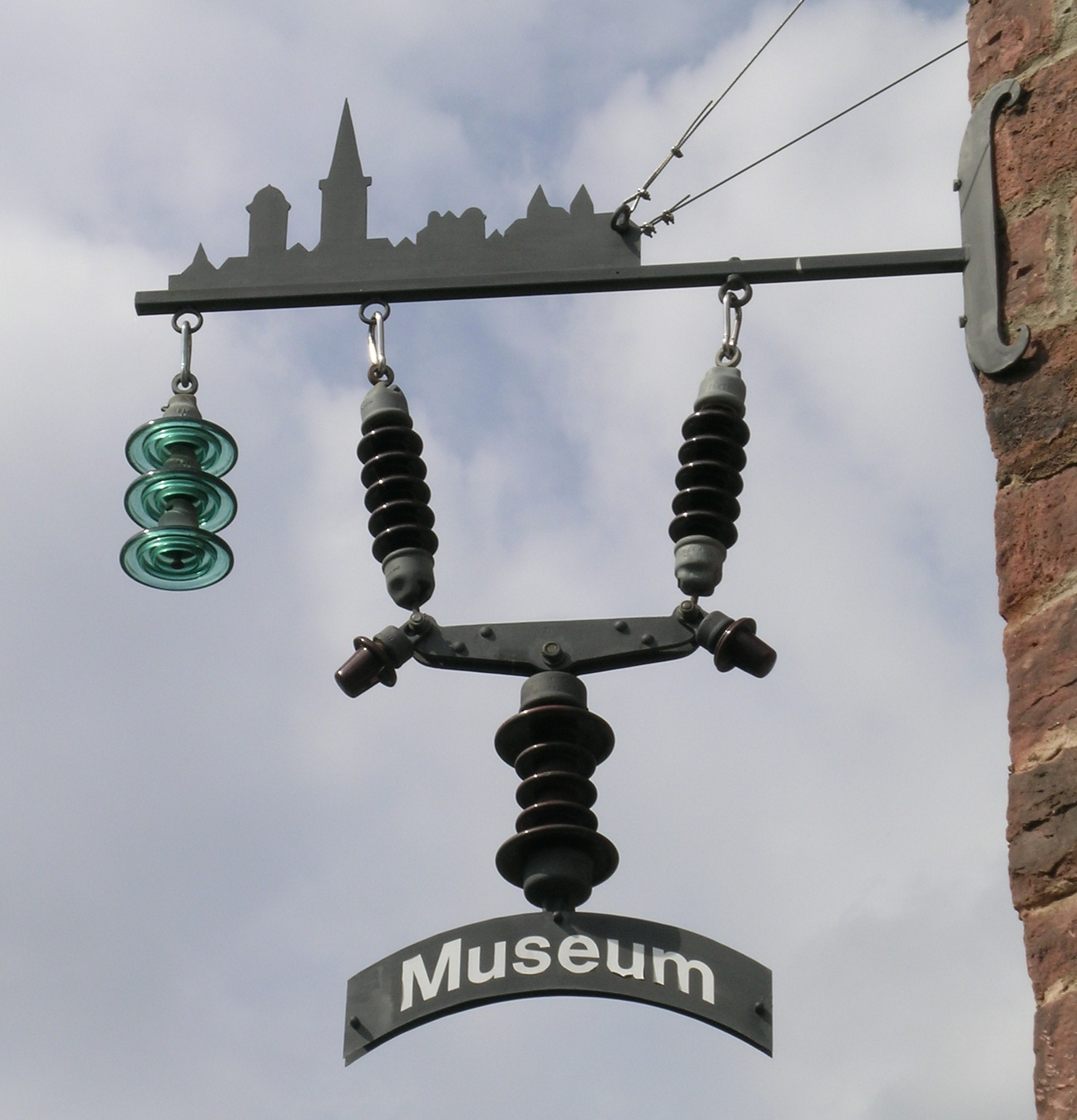 Guide sign at the museum of isolators in Lohr am Main